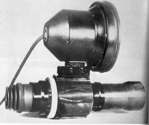 The German Zielgerät 1229 "Vampir" was the first night-vision sniperscope to enter service, used on the Stg 44 assault rifle. Small numbers were produced in 1944 and saw action starting in 1945 on the eastern front, where Soviet soldiers reported being attacked at night by snipers with a huge scope.